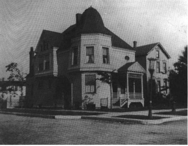 "68 Homboldt Boulevard, Chicago, where The Wonderful Wizard of Oz was written"